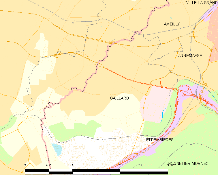 Map of French municipality Gaillard